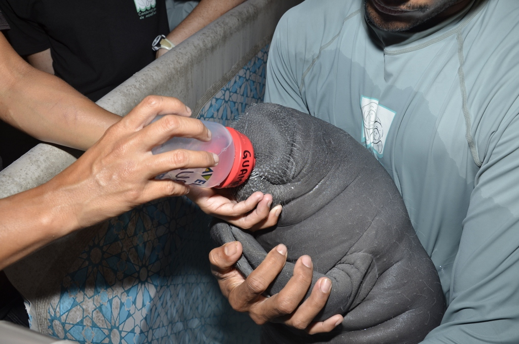 Guamá, orphaned manatee in Guantánamo Bay, Cuba will be rehabilitated in Puerto Rico Photo by Jan Paul Zegarra, Fish and Wildlife Biologist, USFWS photo taken on May 4, 2012 at the Manatee Conservation Center in Bayamón, Puerto Rico